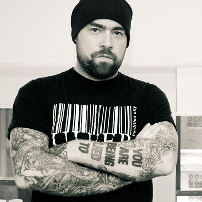 Kristoffer Rygg, photo by Jauhien Sasnou, September 20th, 2007. Kristoffer Rygg